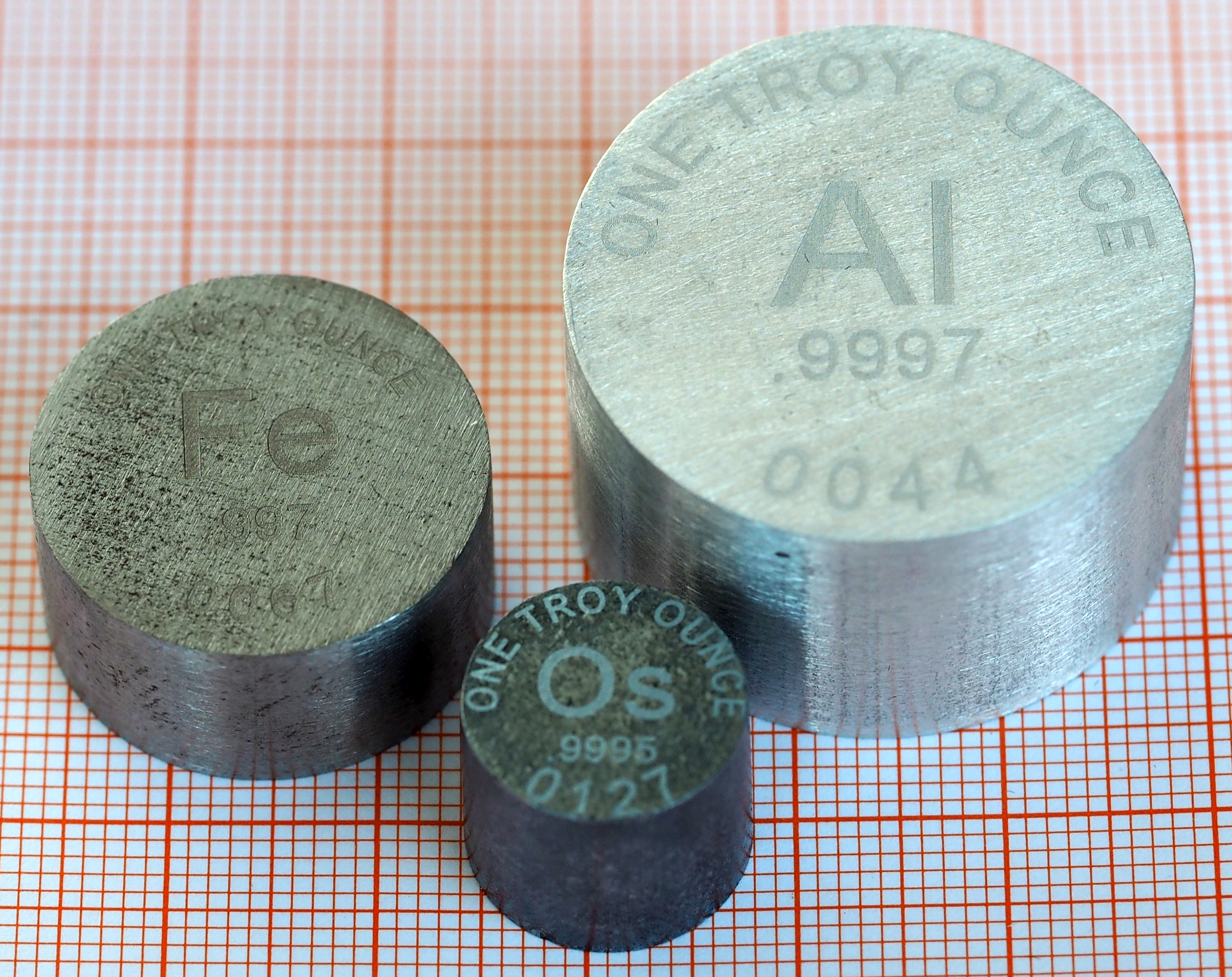 Ingots of Iron, Osmium and Aluminium, one troy ounce each, on millimeter paper